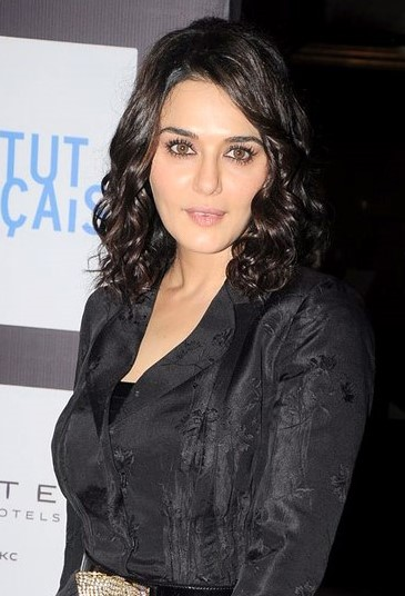 Preity Zinta at Ishkq In Paris-Isabelle Adjani event